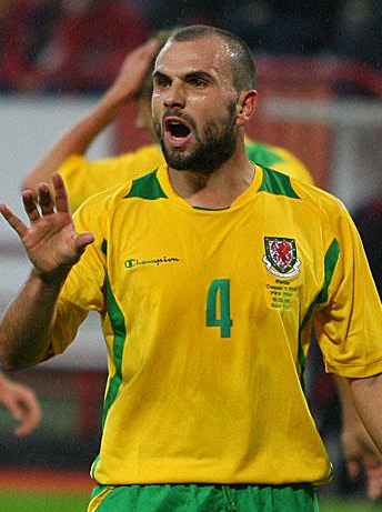 Carl Fletcher, Welsh footballer (10.09.2008 Russia 2-1 Wales)